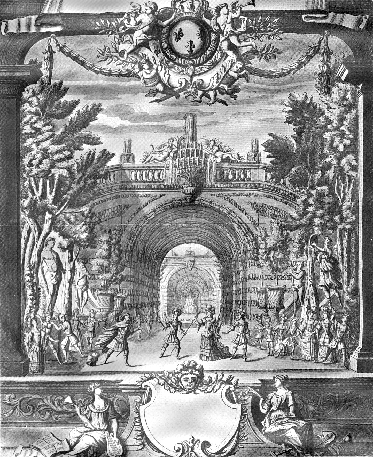 Jean-Baptiste Lully - Roland - titlepage of the libretto - Paris 1685